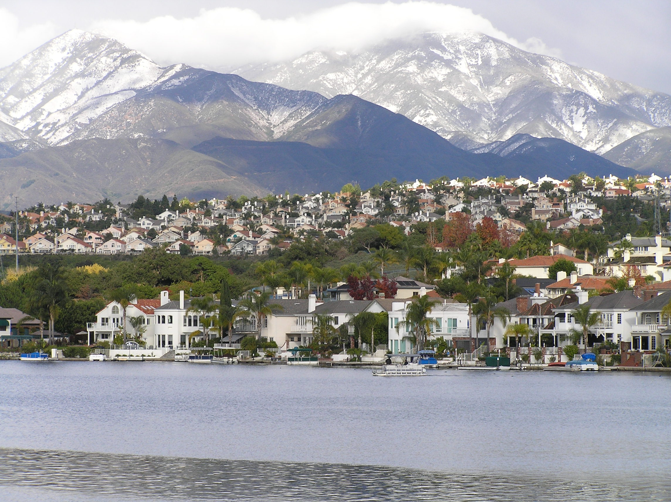 Saddleback Mountain unusually covered in snow over Lake Mission Viejo.